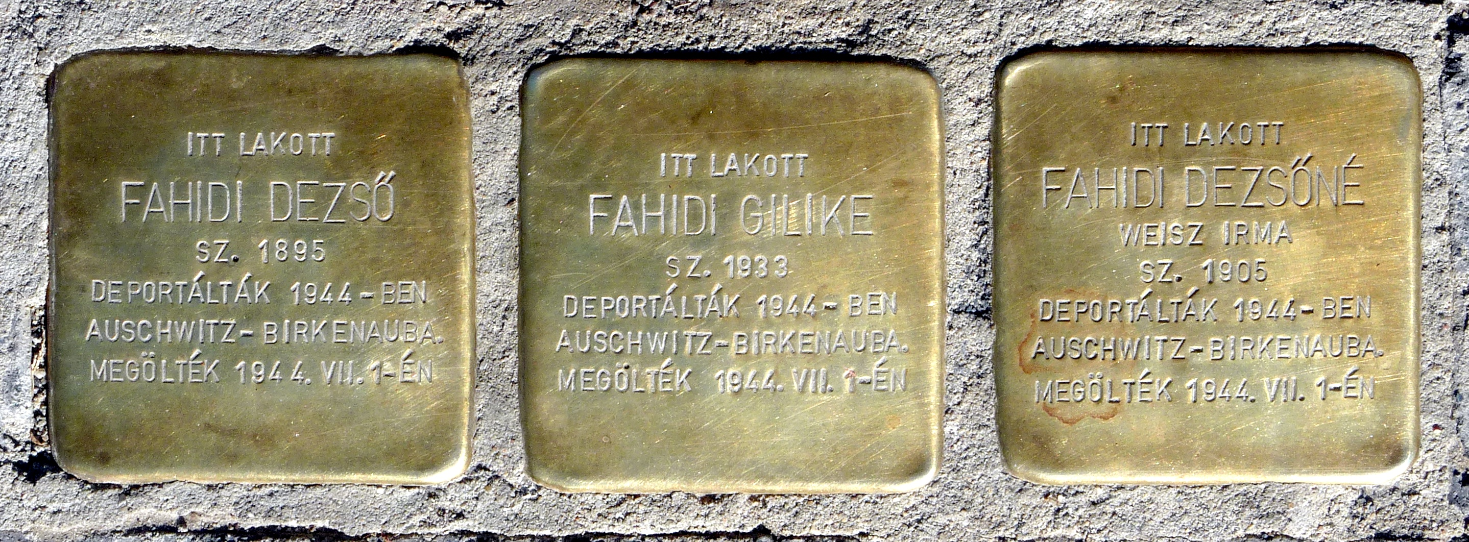 Stolpersteine of the Fahidi's family (Éva Fahidi’s parents and her younger sister) at the entrance of their former domicile. (Debrecen, Szoboszlói Street Nr 27)